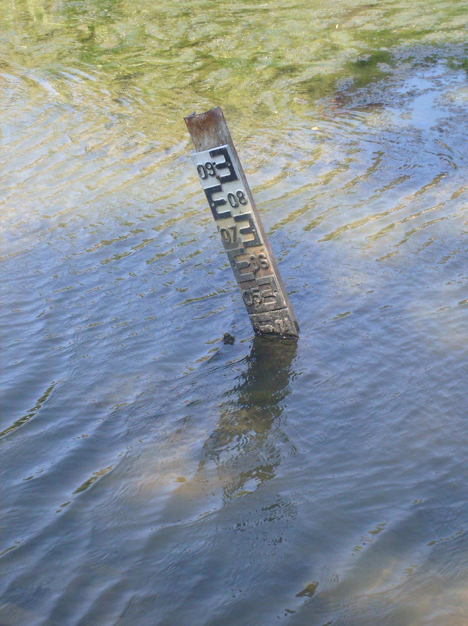 Bega